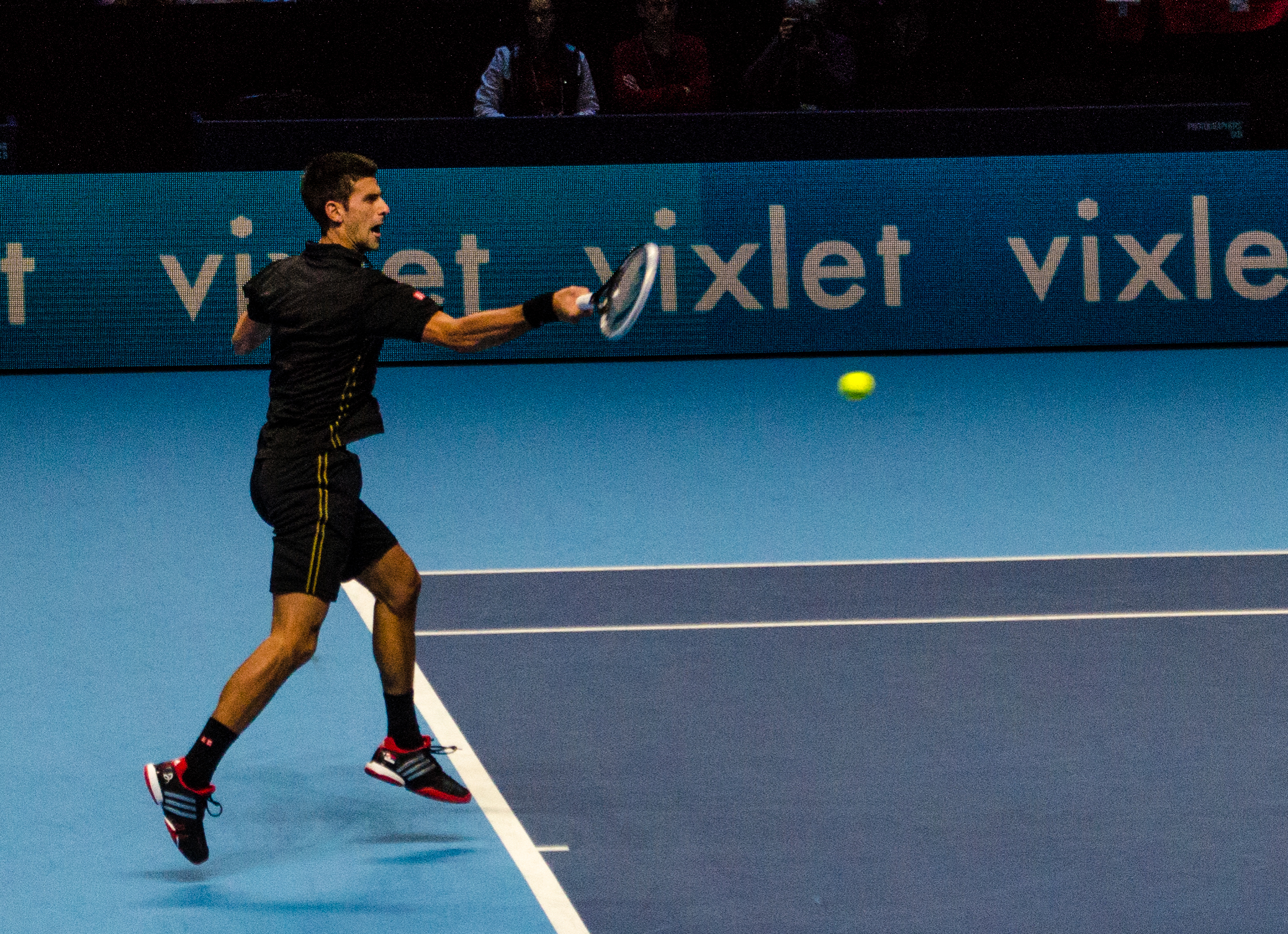 This is a photo of a tennis game at the ATP World Tour Finals.